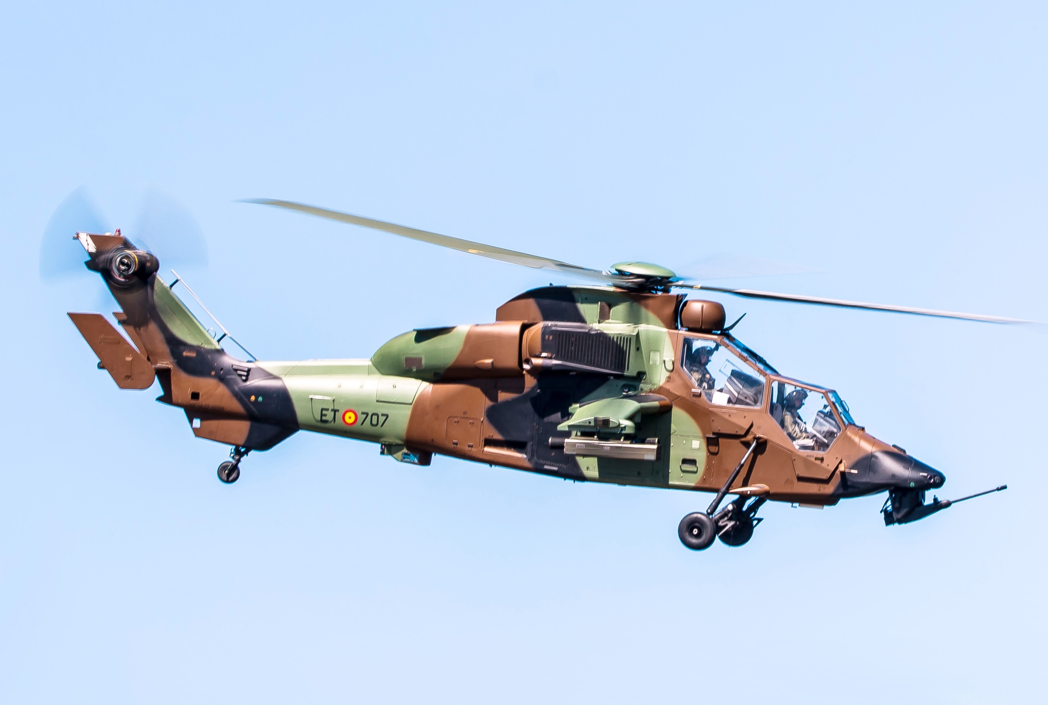 Spanish Eurocopter EC 655 Tigre